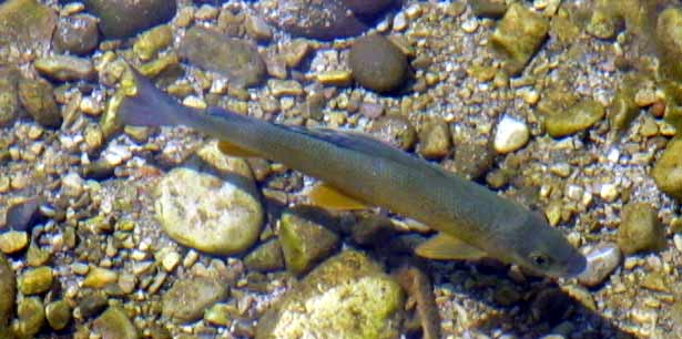 grayling (Thymallus thymallus)